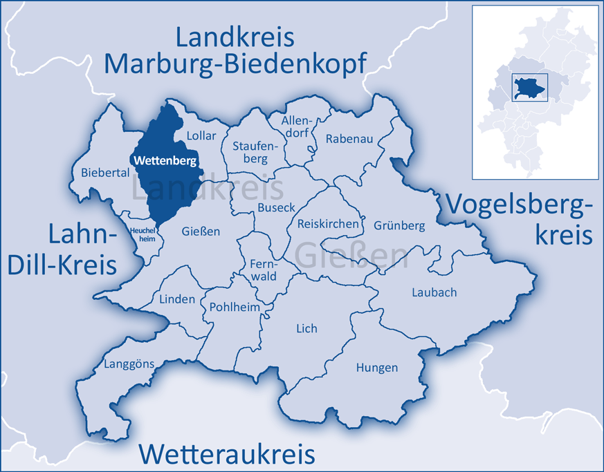 The map shows a district in the area of Gießen (district)